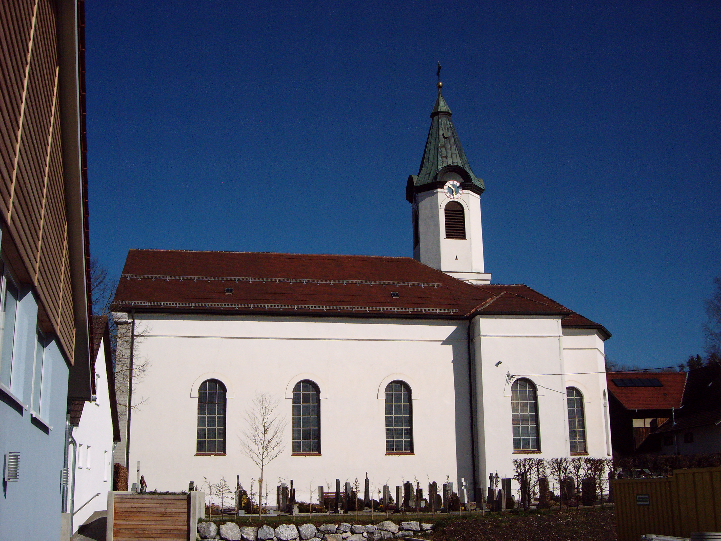 Schwabsoien, St Stephen's Parish Church from south.